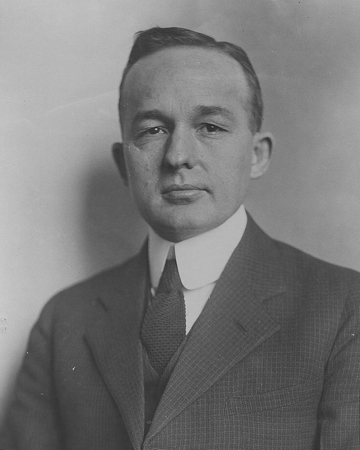 John Marvin Jones, representative from Texas, head-and-shoulders portrait